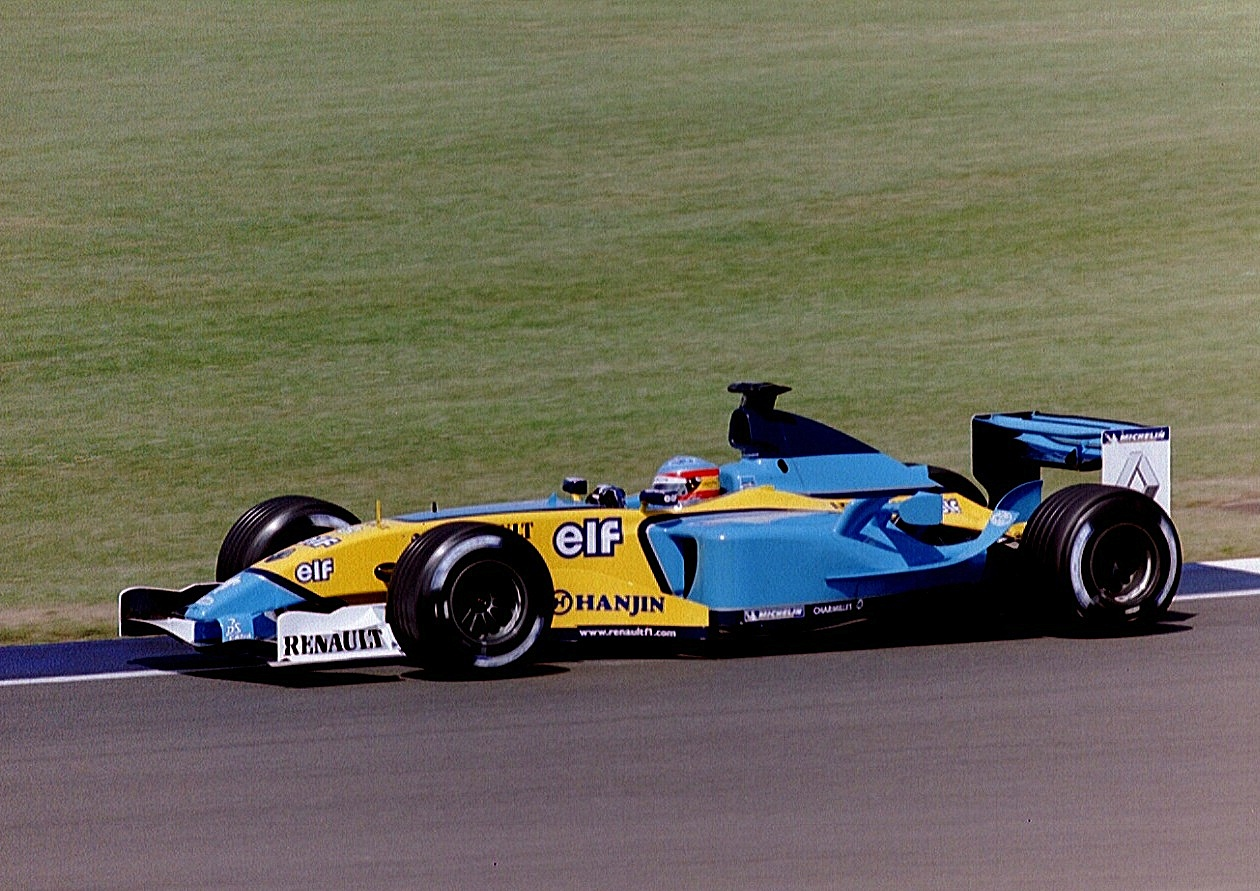 Fernando Alonso, driving his Mild Seven Renault at the 2003 British Grand Prix.